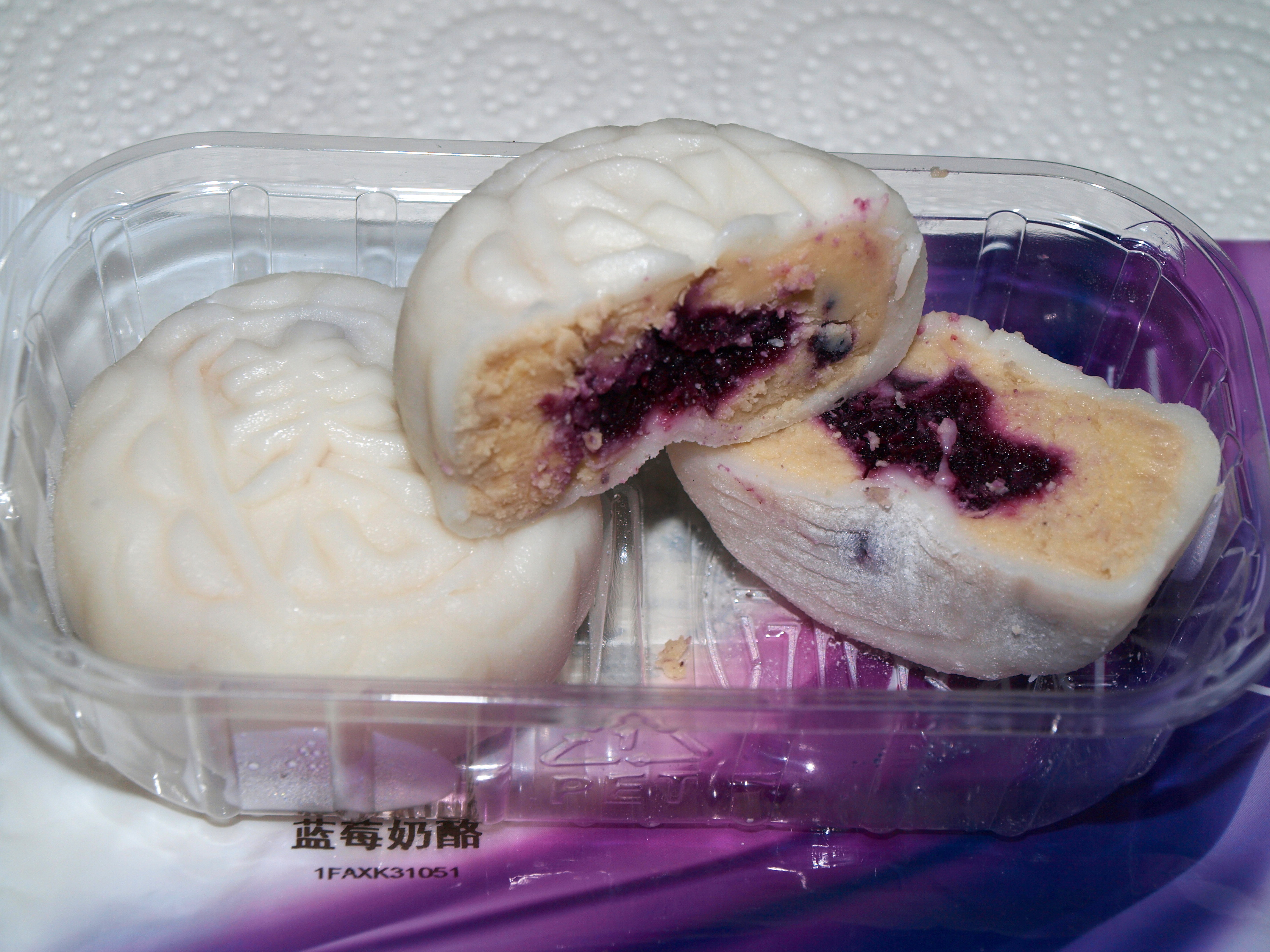 This is a pack of snowy mooncakes in Hong Kong. The flavor is cheese with blueberry.